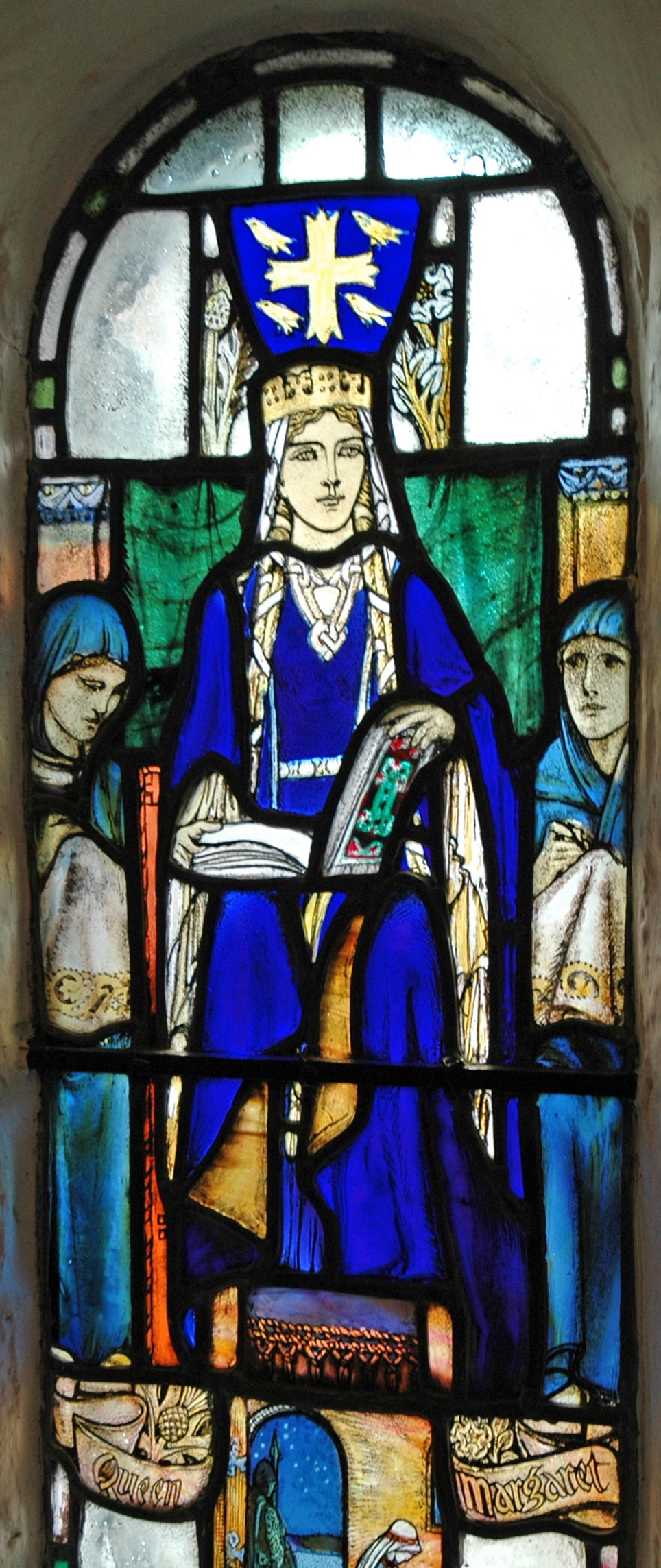 St. Margareths Chapel, Edinburgh